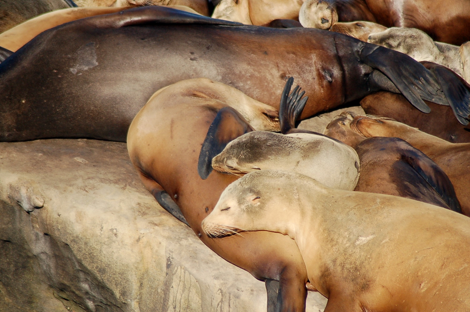 Young sea Lions